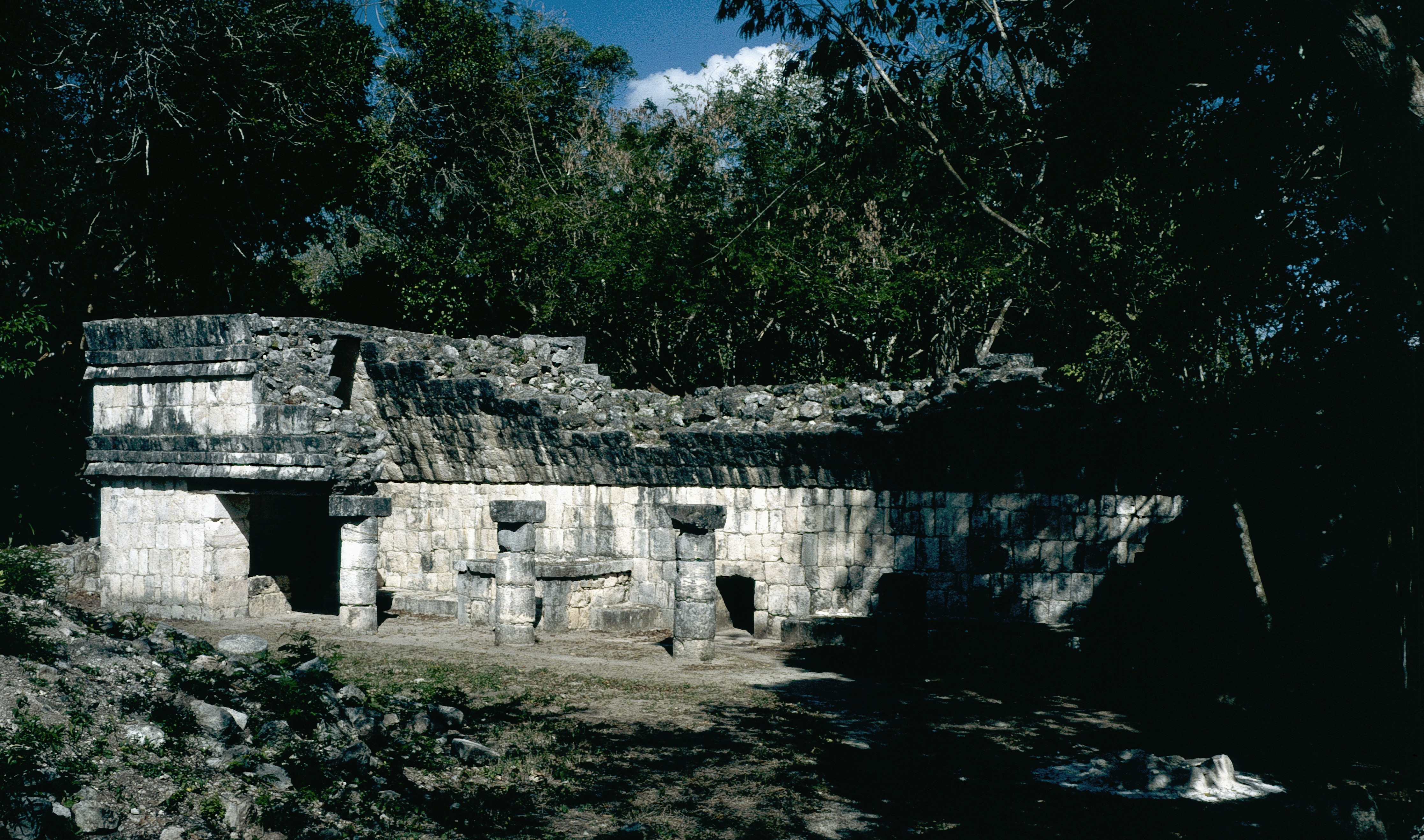 Chichen Itza, Yucatan, Mexico: Temzacal (3E3)